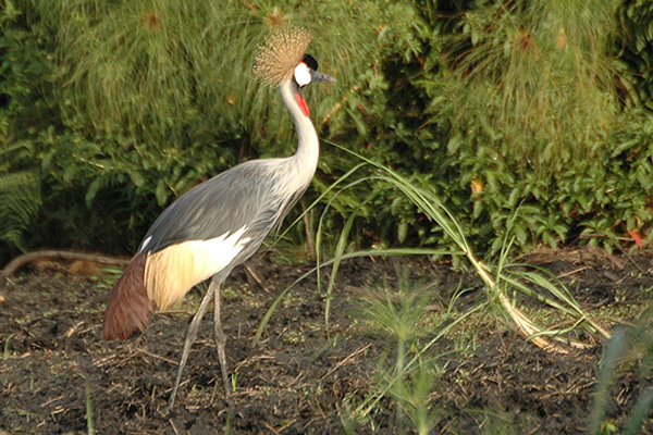 Uganda Grey Crowned Crane (Balearica regulorum) Entebbe, Uganda